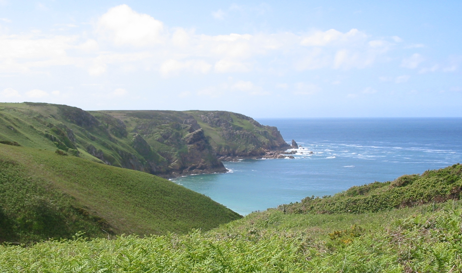 Cliffs at Plémont on north coast of Jersey Photo taken by Man vyi with Canon PowerShot A40 on 22/5/2005